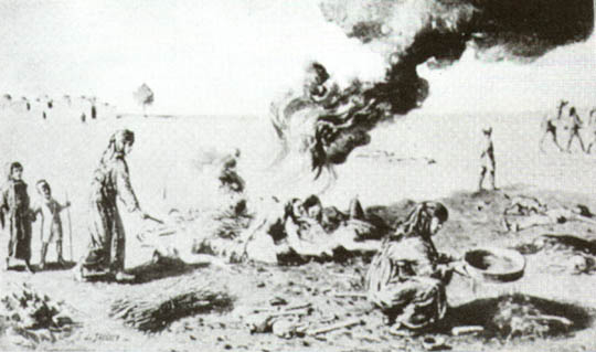 The burning of bodies of Christian women by Kurdish women, to recover the gold and precious stones they were supposed to have swallowed.